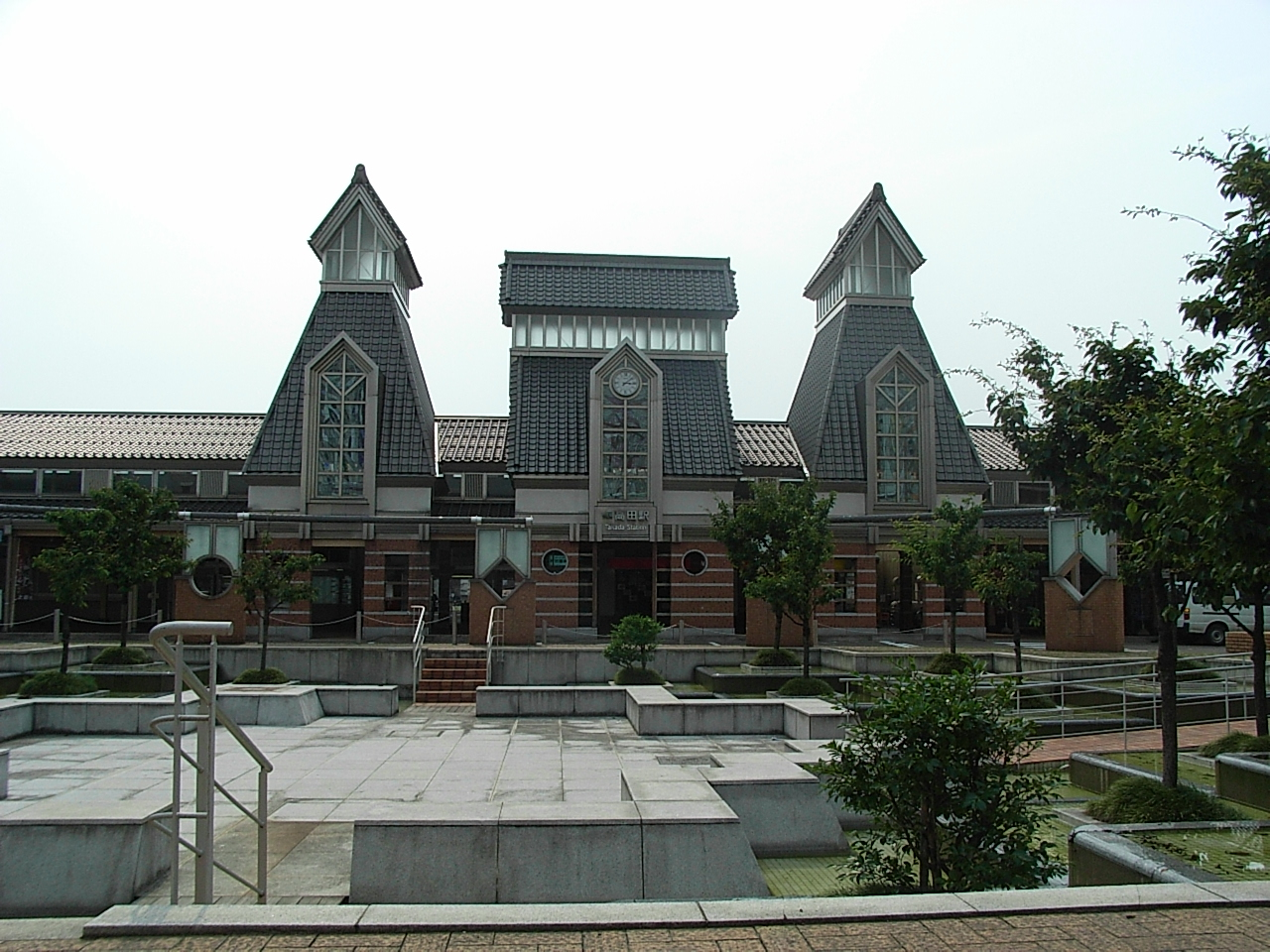 Takada Station on JR Shin-etsu Line. (1-1,Nakamachi 4-chome,Joetsu-shi,Niigata-ken,JAPAN)